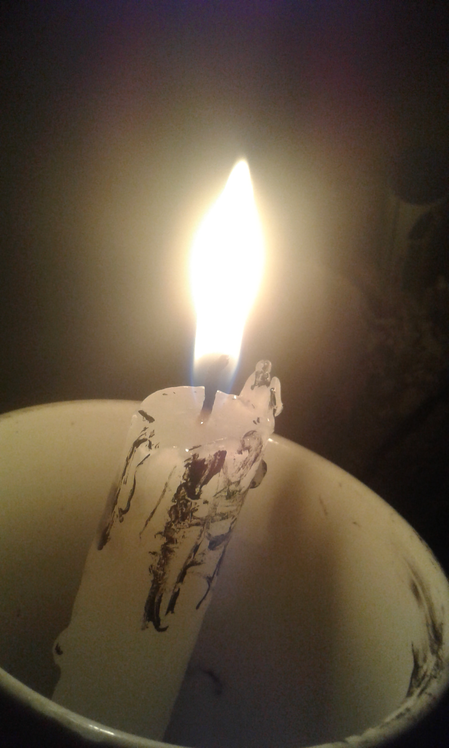 This photo has been taken in the country: Sri Lanka